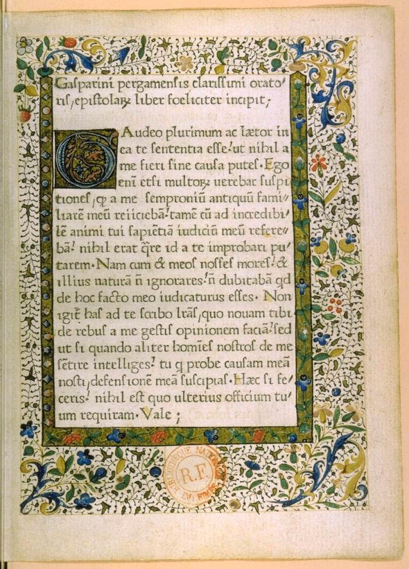 Page from the "Epistolae" by Gasparino Barzizza printed by Michael Friburger, Ulrich Gering and Martin Krantz in Paris, 1470. Reserve of Rare and Precious Books, Rés. Z. 1986 (Bibliothèque nationale de France).